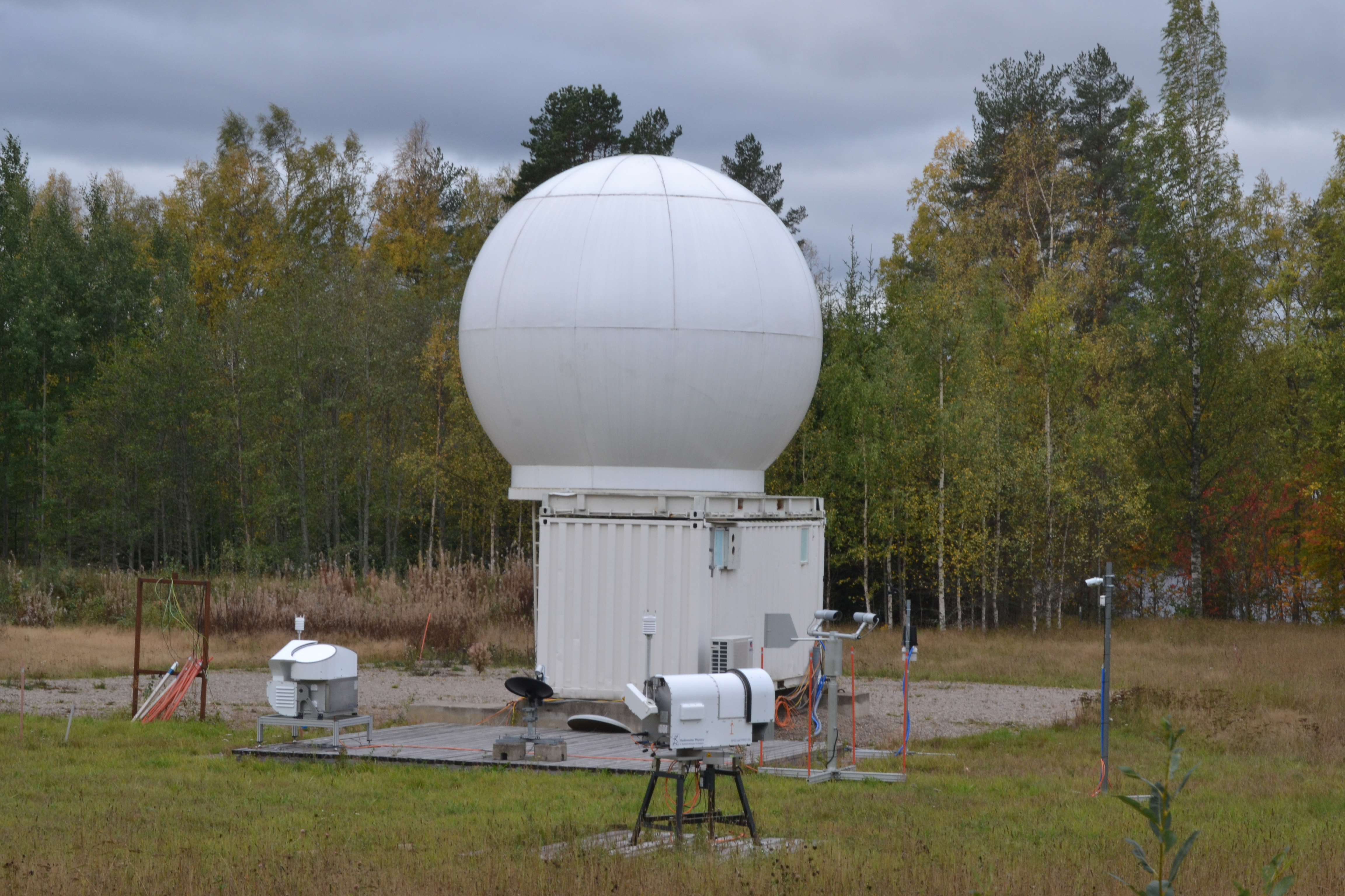 Hyytiälä forestry field station weather radar